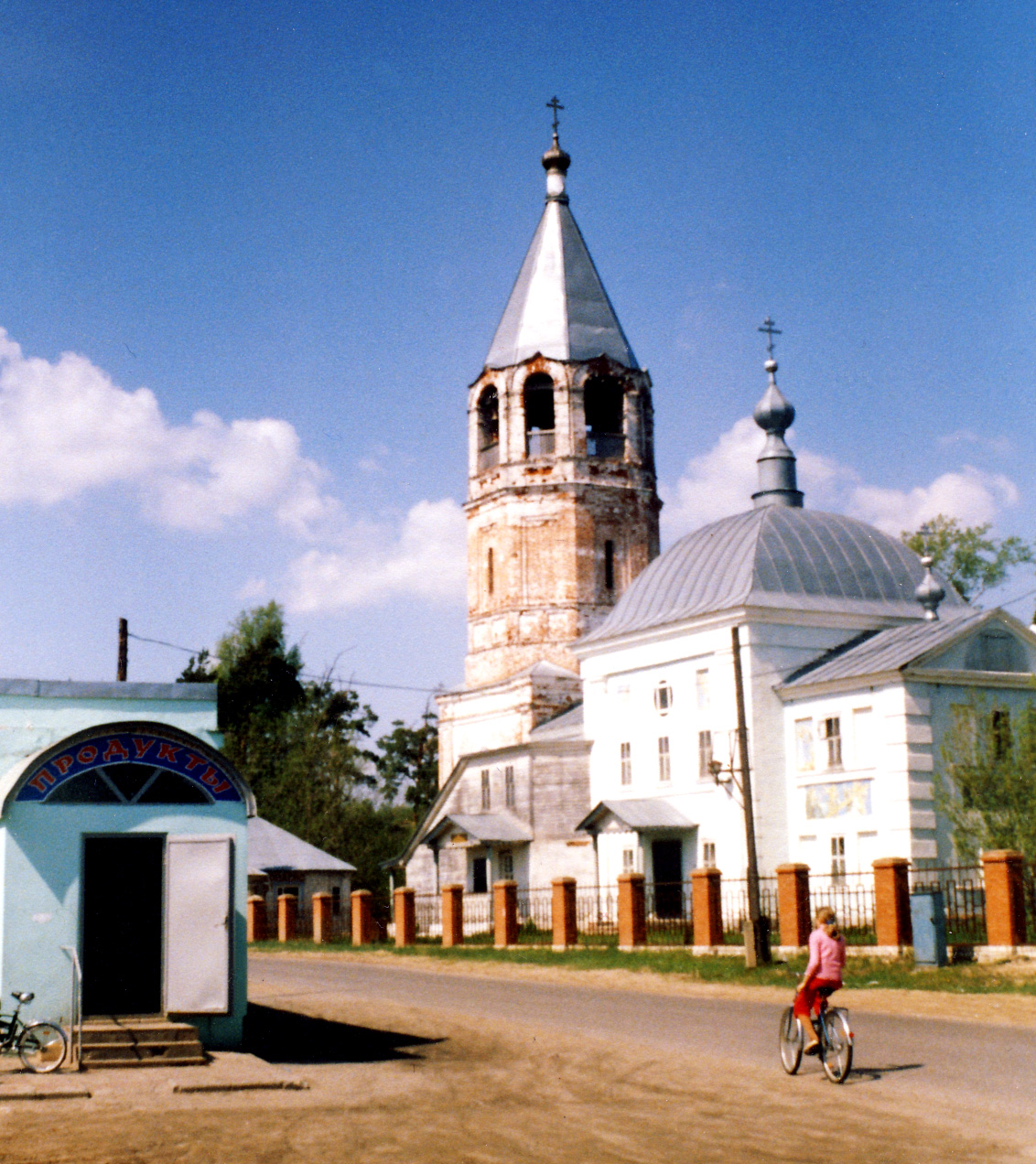 Volodarsk. Blagoveshchenskaya Church at Gorky Street